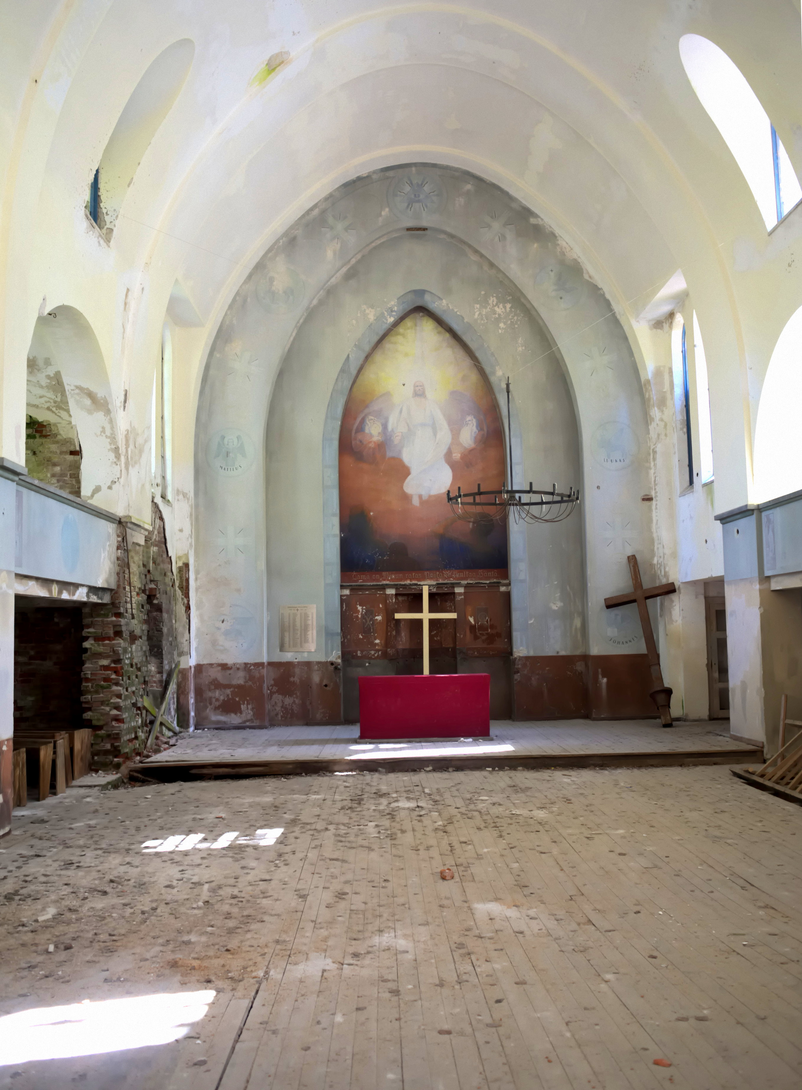 Lumivaara Church May 14th 2016